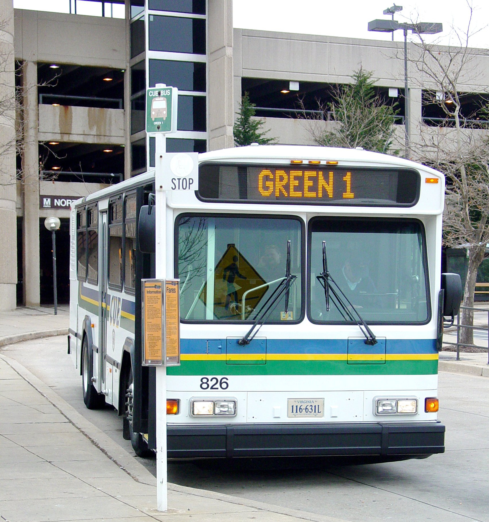 CUE Gillig Phantom bus at Vienna/Fairfax-GMU station.